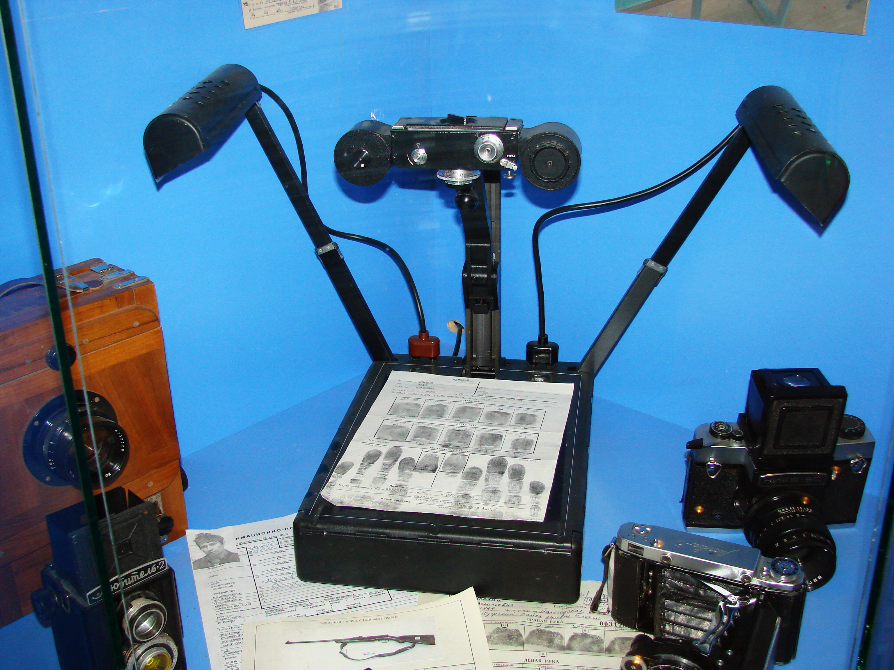 Russia, Vologda, militsiya museum